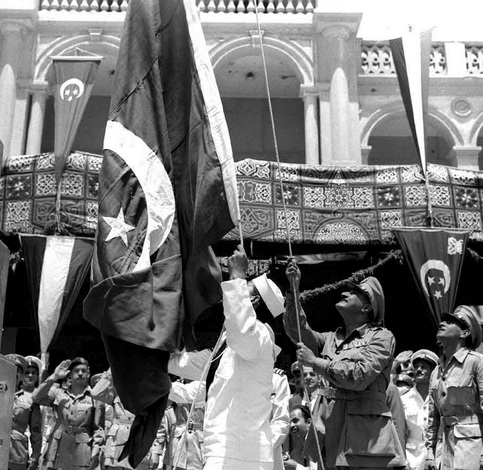 Egyptian President Gamal Abdel Nasser raises the Egyptian flag over the local naval headquarters at Port Said in celebration of the British military withdrawal from the canal zone a few days prior